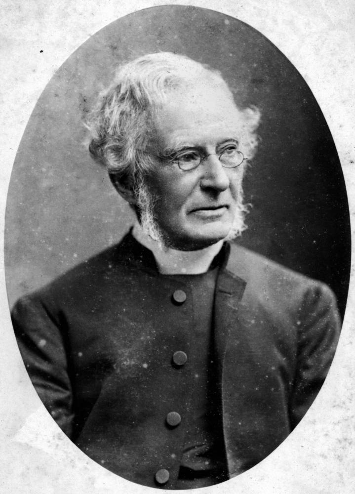 Bishop Matthew Blagden Hale, 1875 1811 - 1895. Anglican Bishop. In 1840 he married Sophia Clode by whom he had two surviving daughters, Amy and Mary. His wife's and mother's deaths in 1845 severely affected his health. 1847 he become Archdeacon and examining chaplain in South Australia. Installed in Brisbane unanimously by the Australian Bishops in 1875. He retired in March 1885 and returned to England. He died at Bristol on 3 April 1895, survived by his second wife Sabina (nee Dunlop), five sons and three daughters. (Description supplied with photograph.).